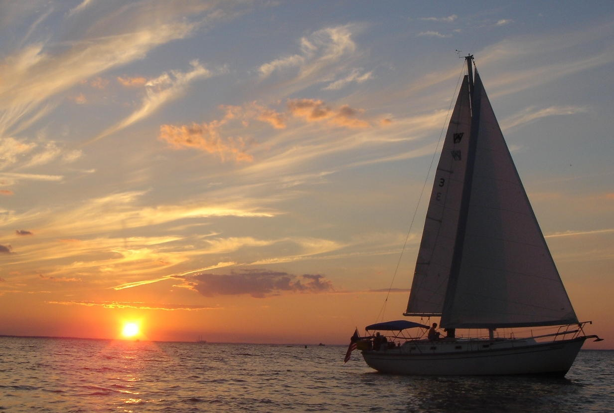 Scenic sailing cruises are just one way to explore the natural beauty of Rock Hall, Md